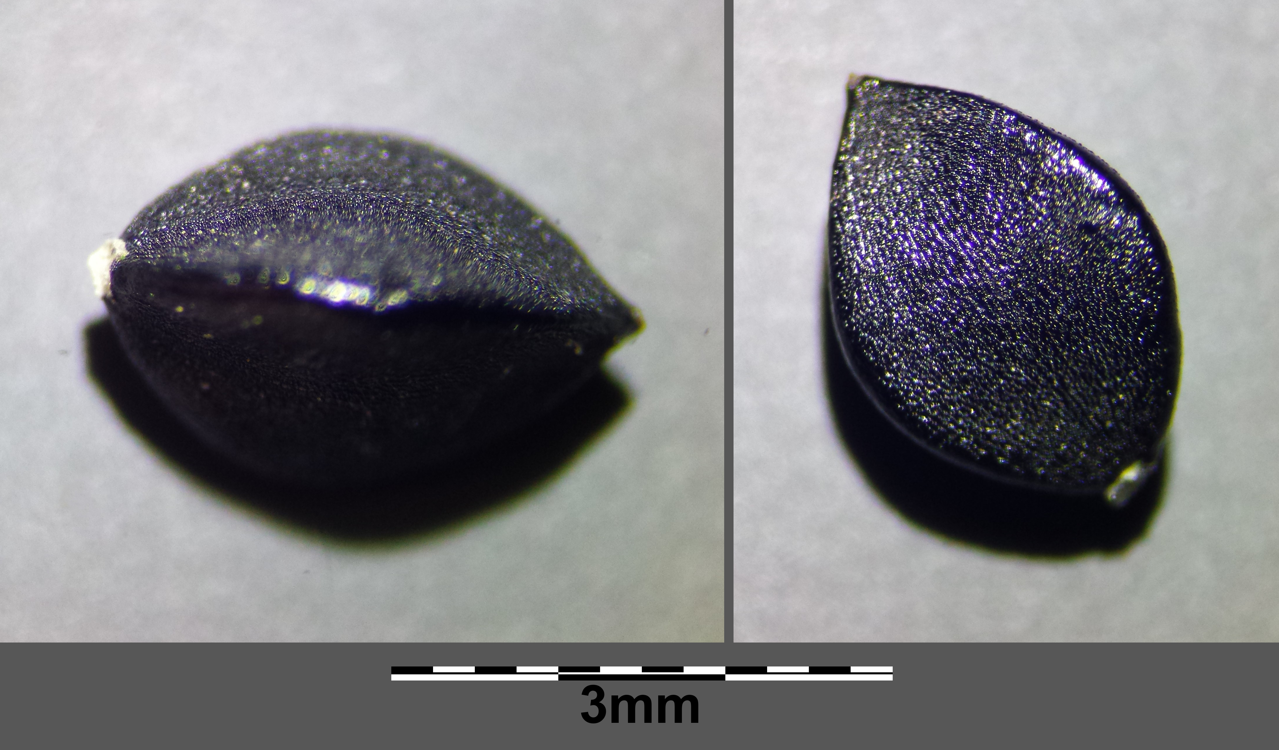 Fruits Taxonym: Fallopia convolvulus ss Fischer et al. EfÖLS 2008 ISBN 978-3-85474-187-9 Location: near Oberrohrbach, district Korneuburg, Lower Austria - ca. 200 m a.s.l. Habitat: fence